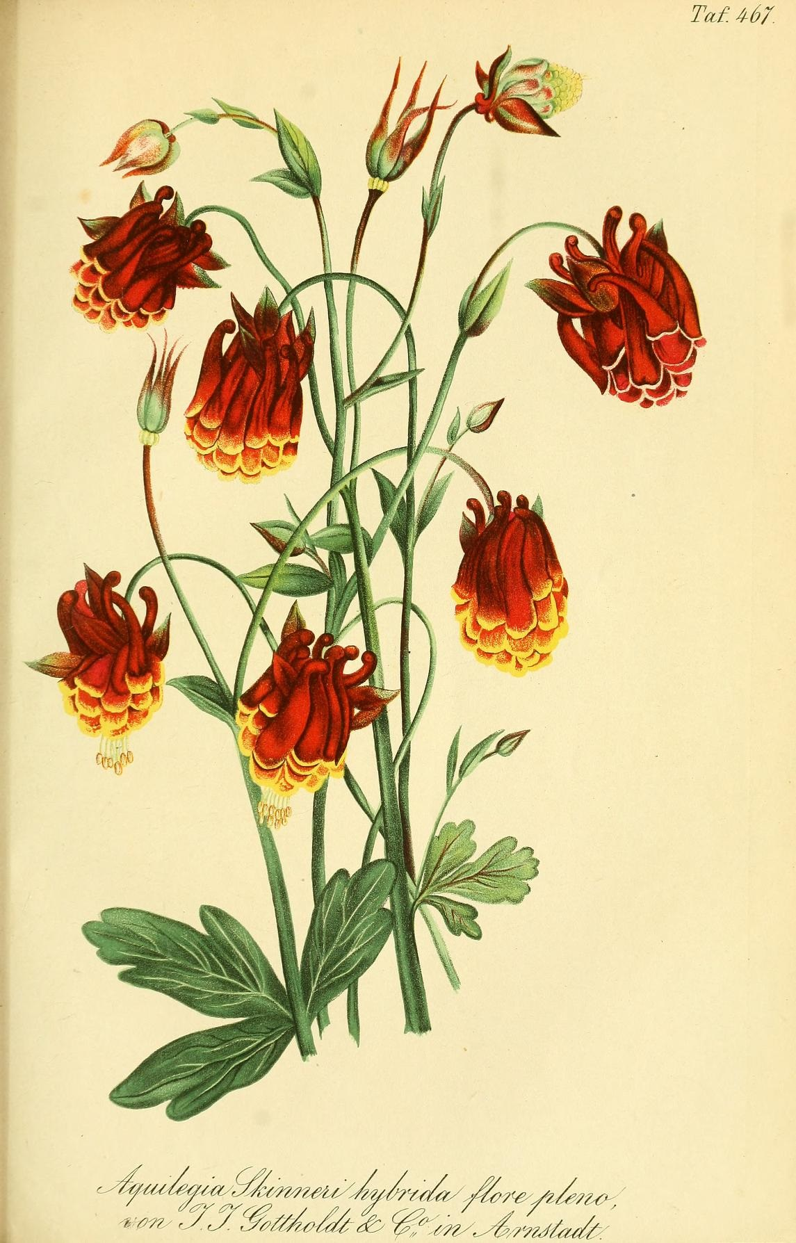 Illustration of Aquilegia skinneri hybrida flore pleno